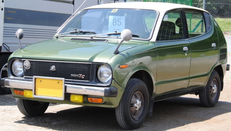 Suzuki Fronte 7-S Super Deluxe (SS10-1), original pre-facelift version.